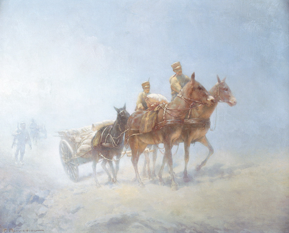 Transportation of shellsTürkçe: Yunanların gözünden Türk Kurtuluş Savaşı'nın Batı Cephesi ("Küçük Asya Felaketi")